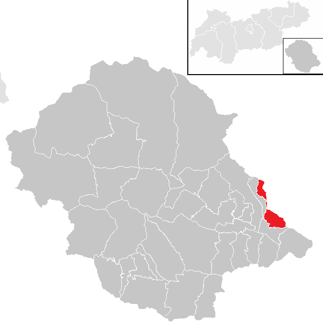 District Lienz